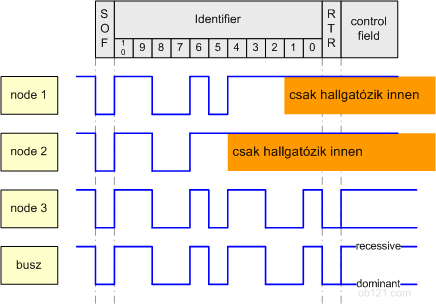 CAN arbitration